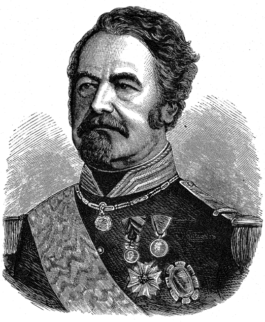 Engraving of Adolphe Niel (1802-69), a French general.